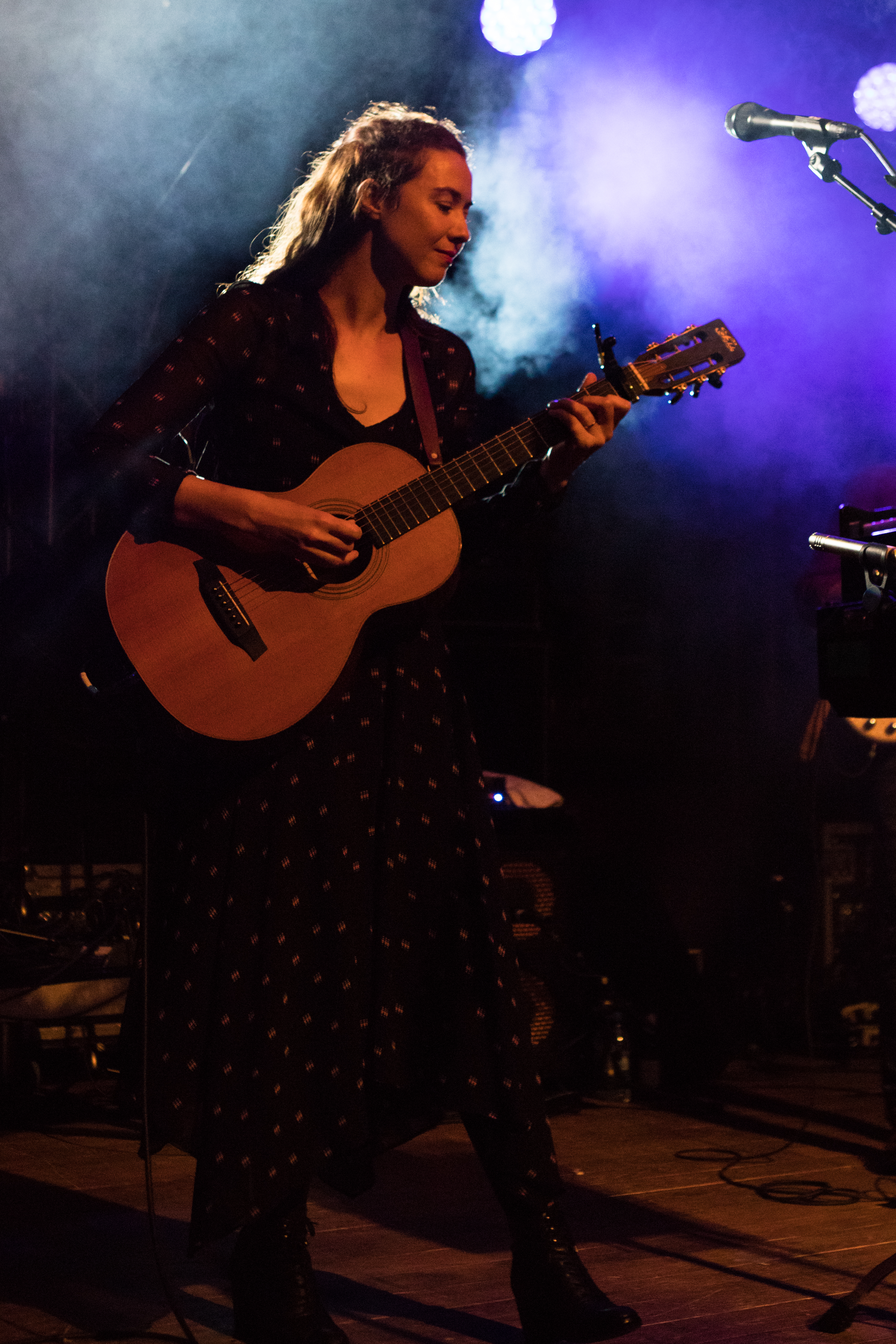 Lisa Hannigan at Haldern Pop Festival 2017